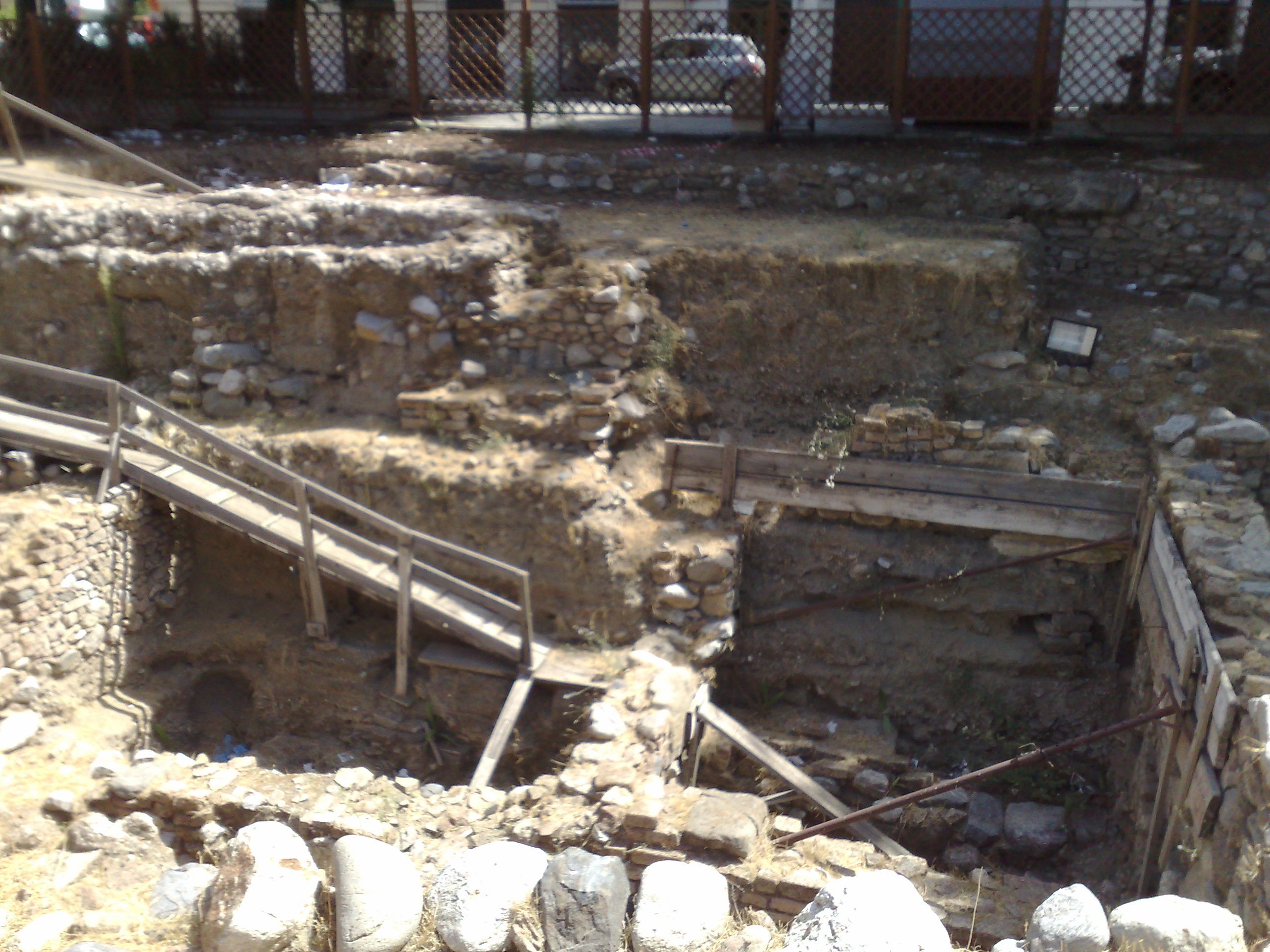 Archaeological Site Excavation of Piazza Italia